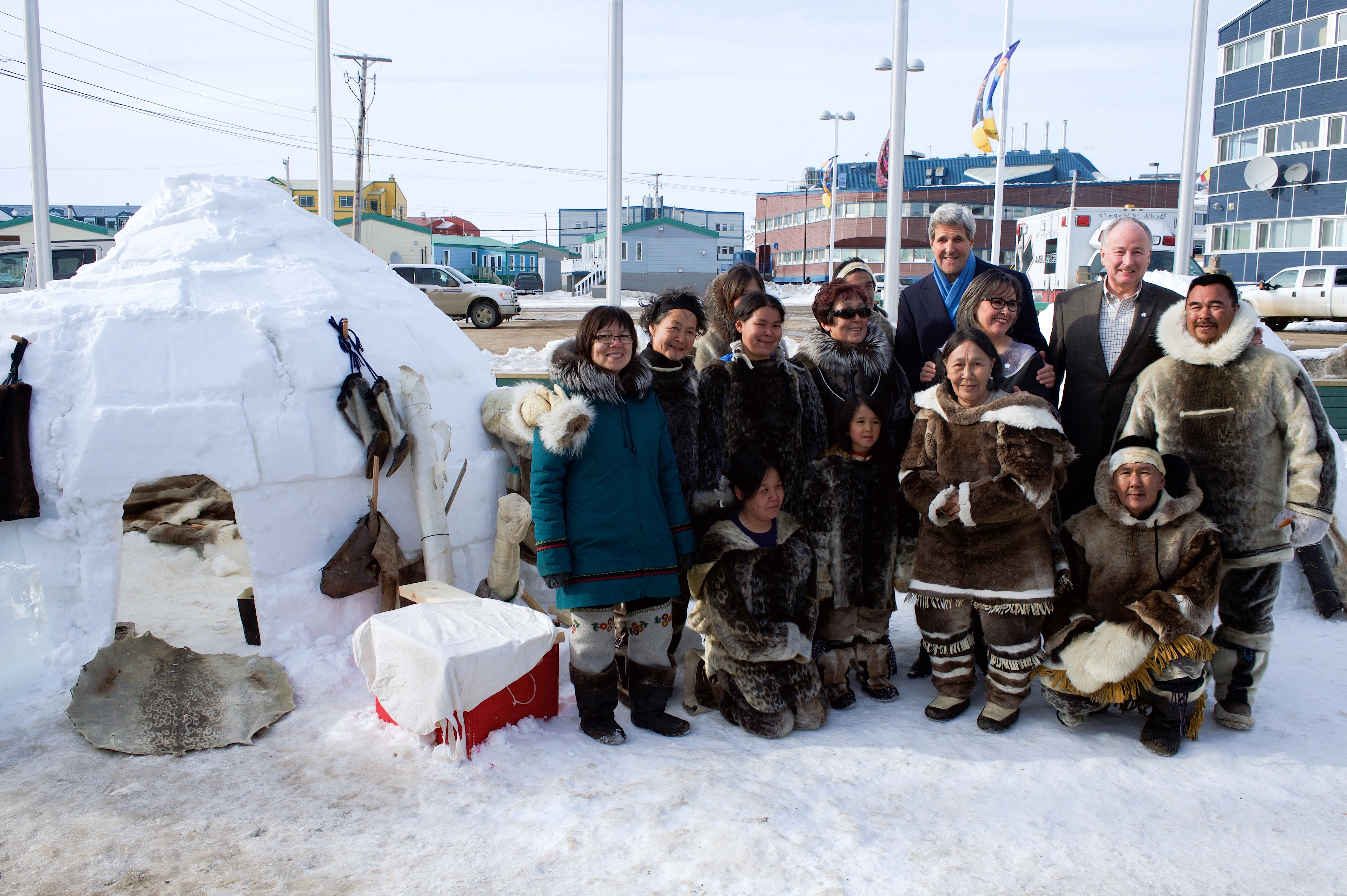 U.S. Secretary of State John Kerry, flanked by Canadian Member of Parliament Leona Aglukkaq of Canada and Canadian Foreign Minister Robert Nicholson, poses with aboriginal northerners at a replica Inuit village in Aglukkaq's hometown of Inaquit, Canada, just below the Arctic Circle, after the United States assumed a two-year chairmanship of the body during a meeting of its eight member nations and seven Permanent Representatives on April 24, 2015. [State Department photo/ Public Domain]